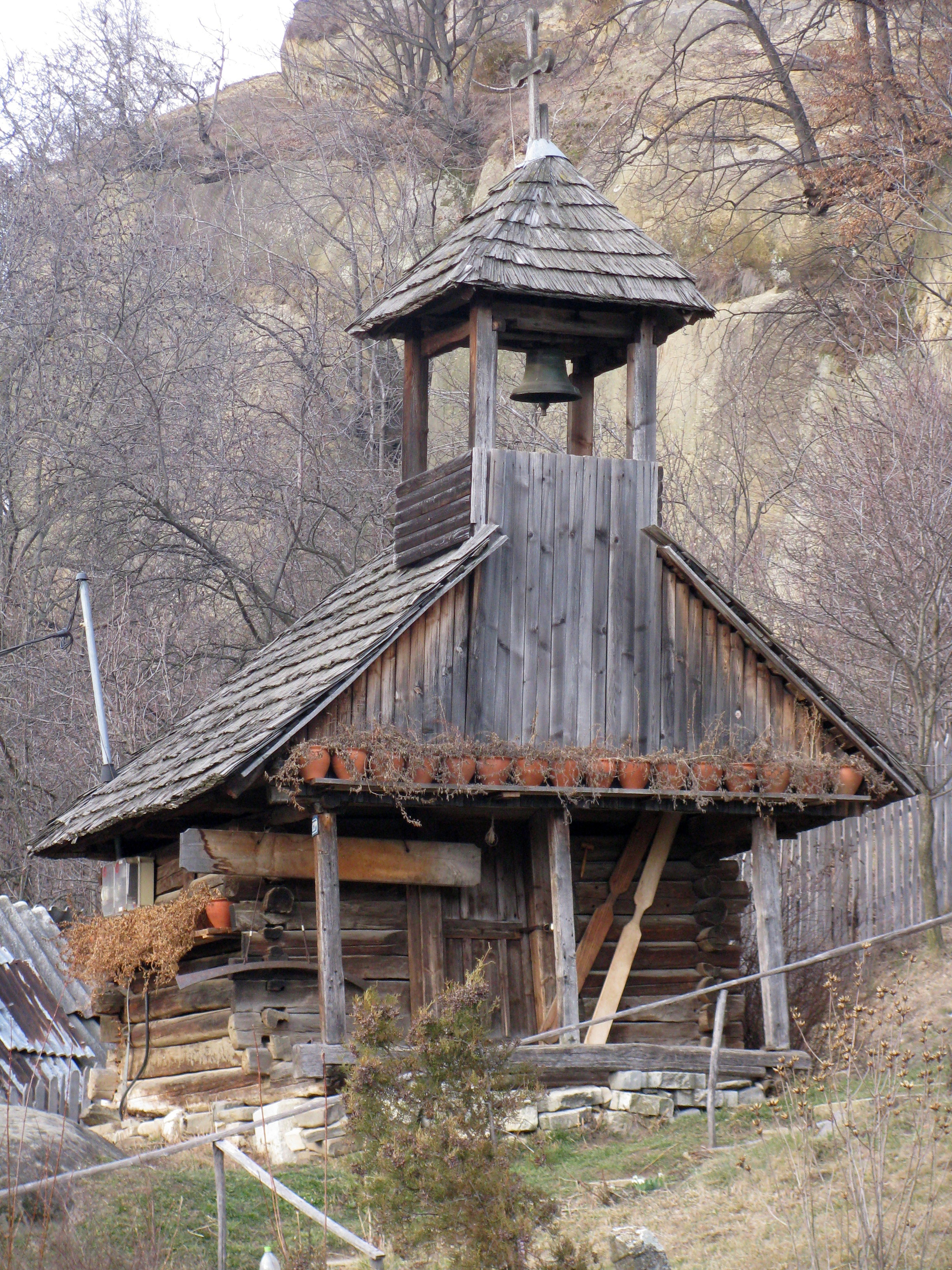 Wooden church from Jgheaburi village, Corbi commune, Argeș county, Romania